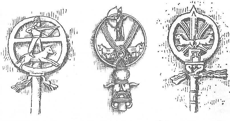 Badges of assyrian troops.